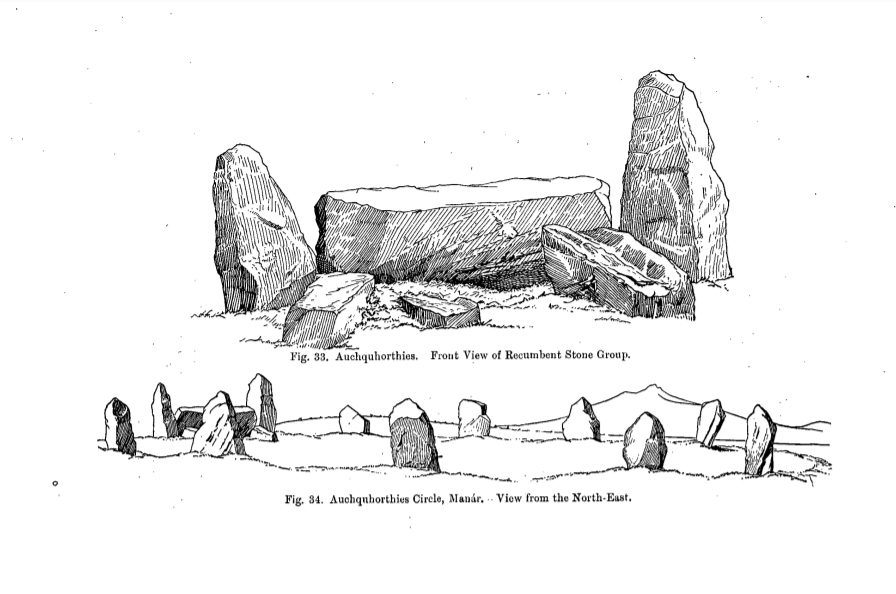 Easter Aquhorthies stone circle in a 1900 report of a detailed survey of the monument by Frederick Coles